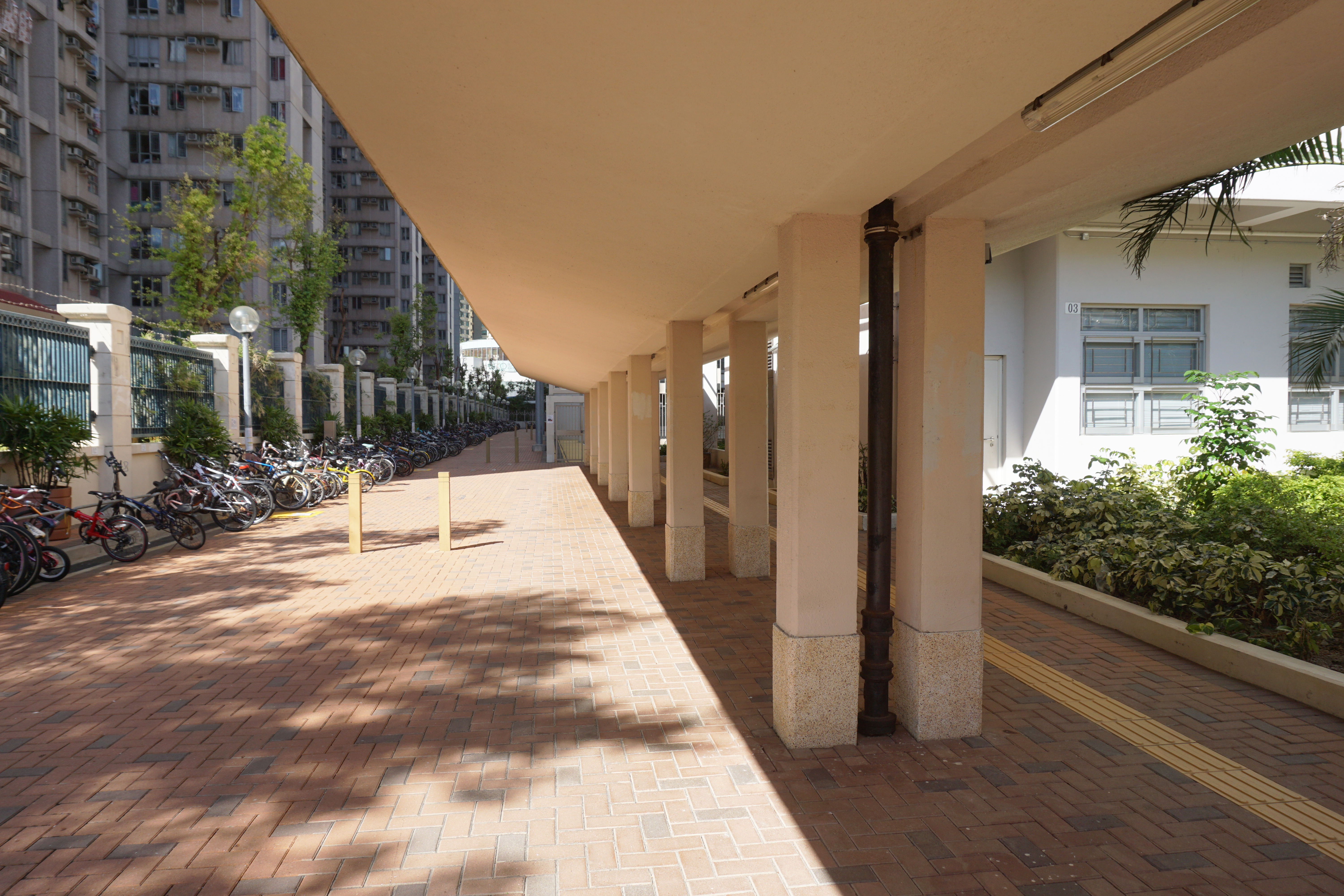 Yee Ming Estate in Tseung Kwan O, Hong Kong.